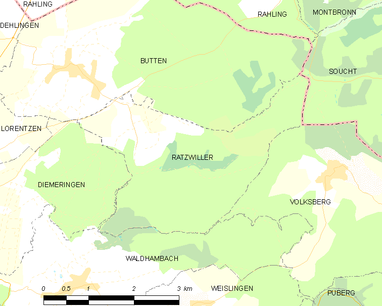 Map of French municipality